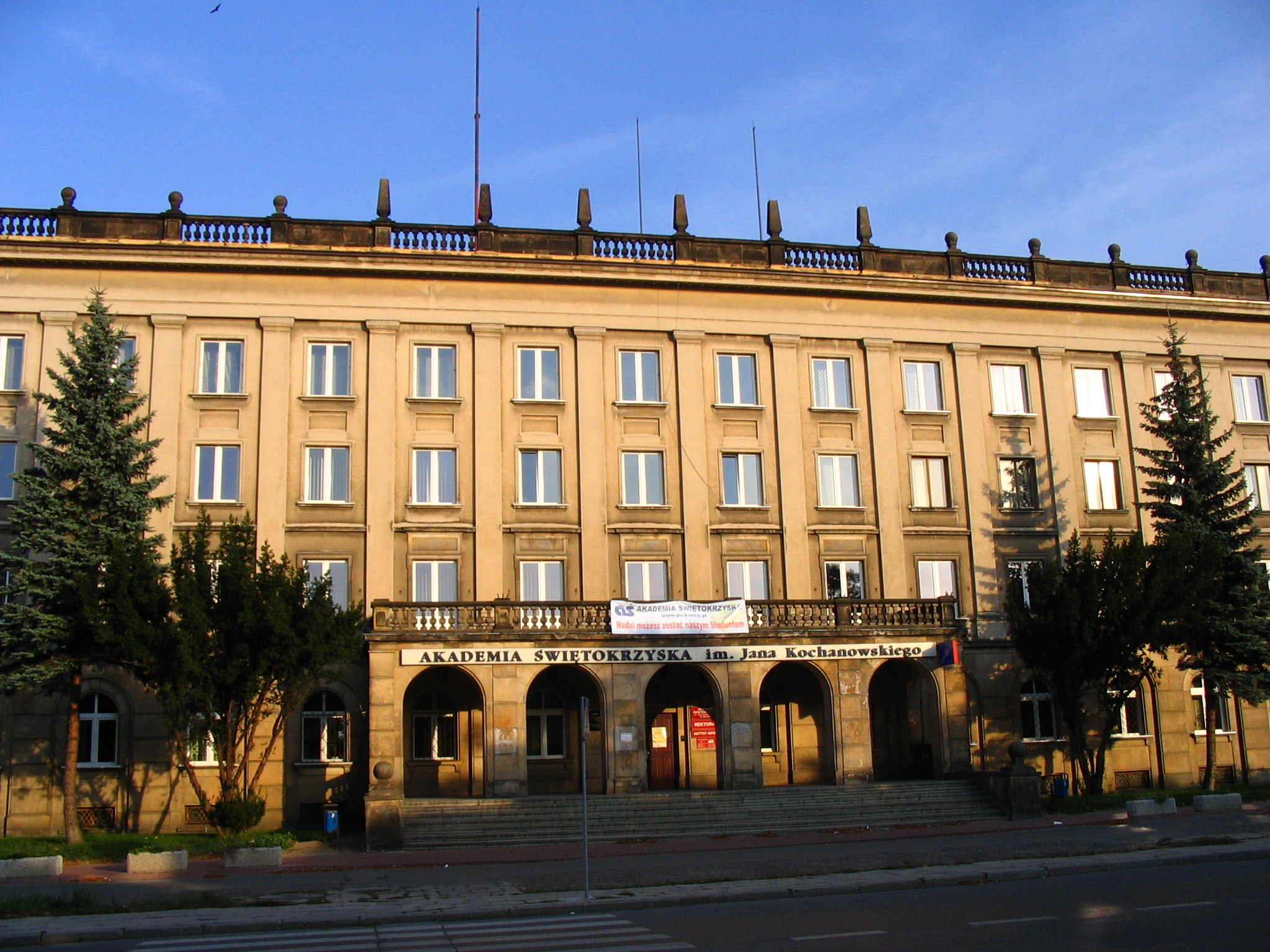 The main building of Świętokrzyska Academy in Kielce